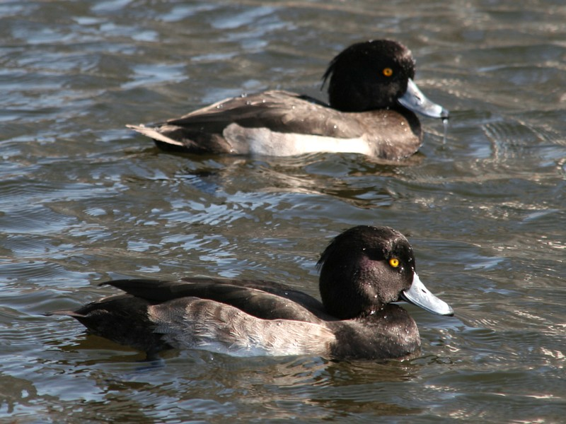 Tufted Duck, Nov. 2005, Yokohama JAPAN ; In